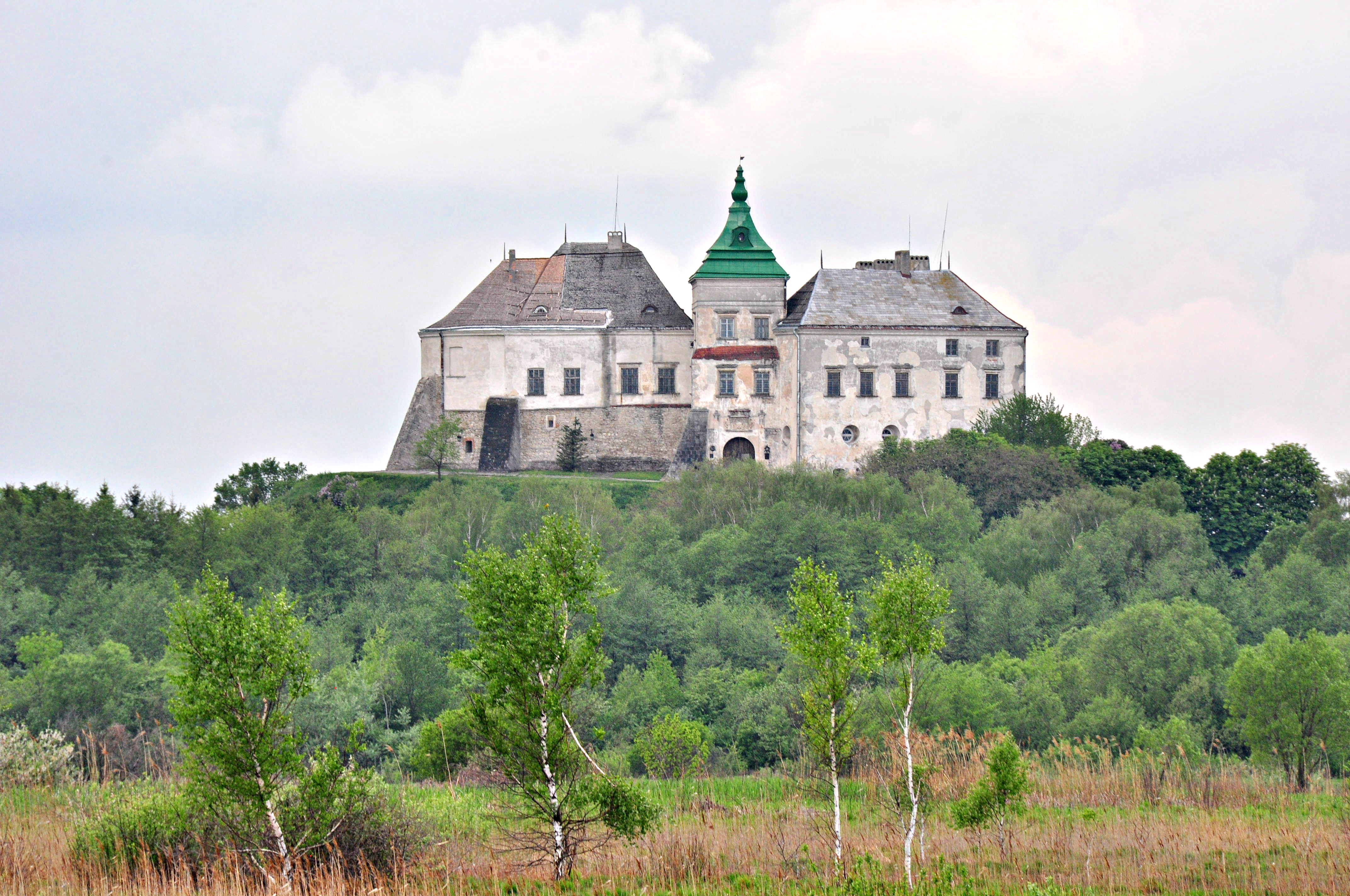 North Podillia, Olesko castle from the ponds